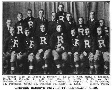 Western Reserve football 1908 with Coach William Seaman of Case Western Reserve going 9-1. Ed Kagy, Del Wertz, Milton “Muff” Portmann, Ursus “Doc” Portmann